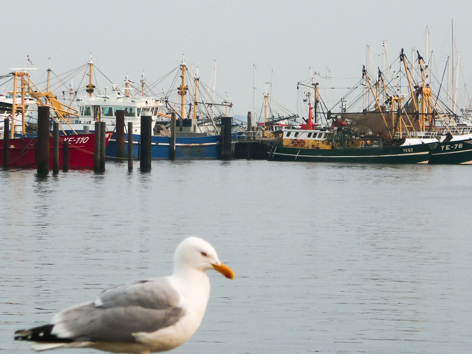 The harbour of Yerseke.